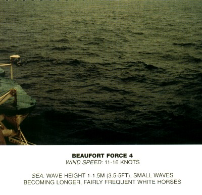 Beaufort scale 4 image